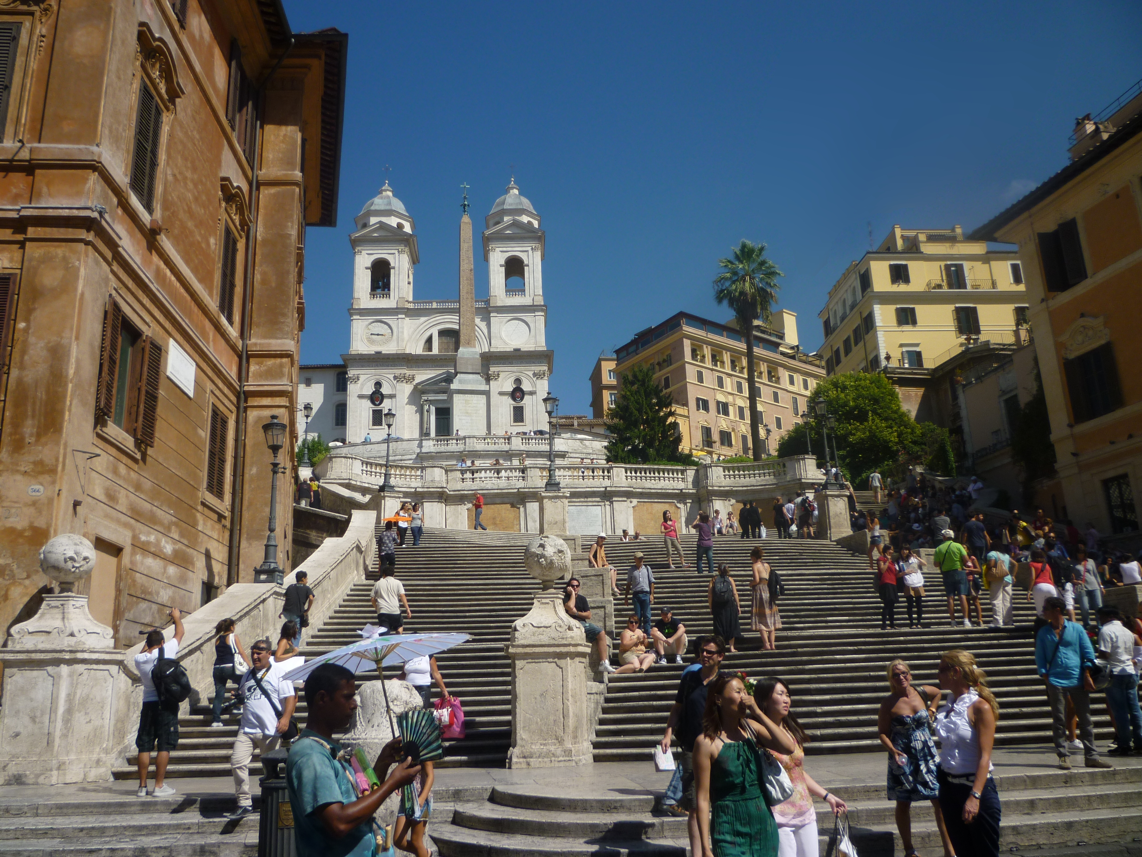 Spanish Steps, Piazza di Spagna, Rome